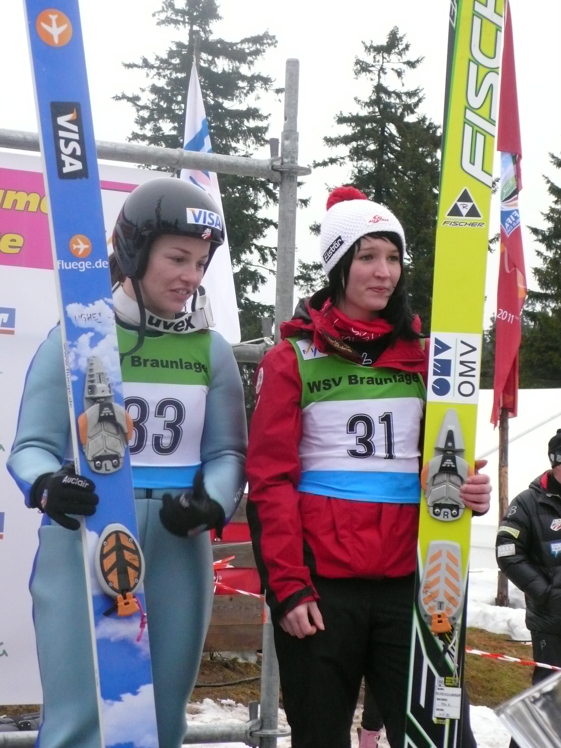 Lindsey Van and Jacqueline Seifriedsberger 6th ex aequo at the Ski jumping Continental Cup in Braunlage on the 2011-01-16.